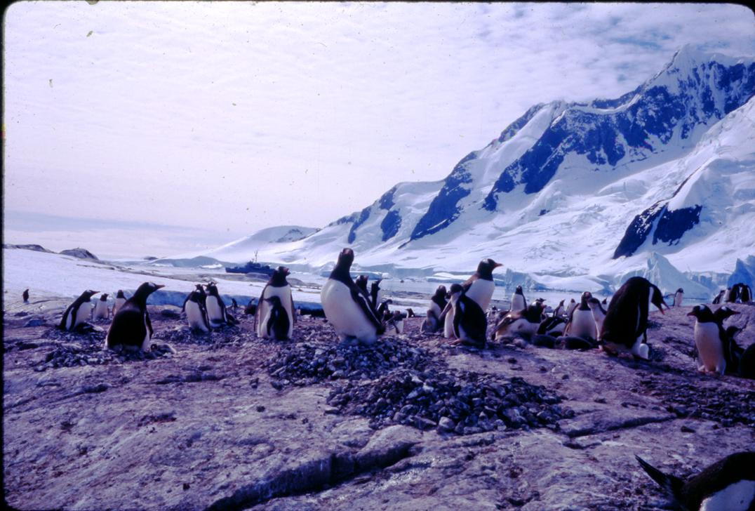 Local number: SIA2012-0663 Summary: SIA RU007231, Box 140, Folder. Taken during Waldo Schmitt's collecting during the Palmer Peninsula Survey 1962-1963. Repository: Smithsonian Institution Archives View more collections from the Smithsonian Institution.